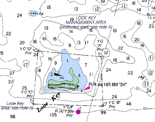 Map of Looe Key Reef cropped from NOAA chart 11445